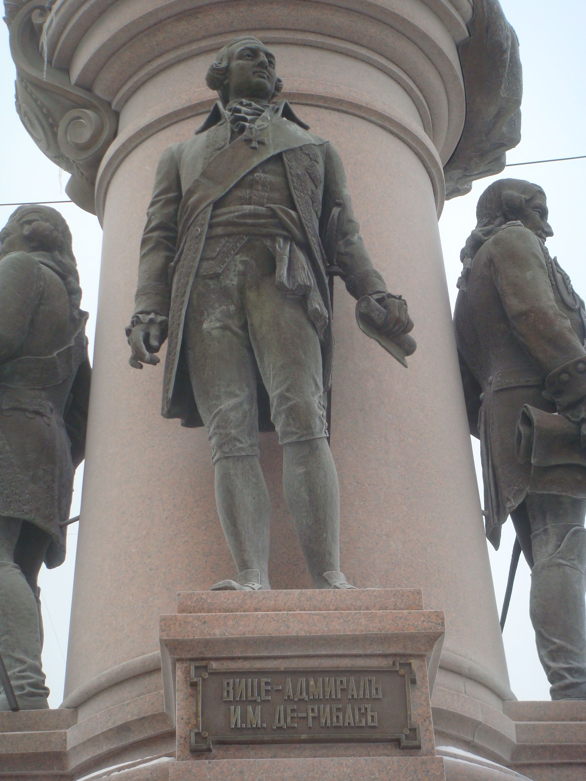 Bronze sculpture of Sir Giuseppe de-Ribas-y-Boyons as part of the monument to Ekaterina the Great in Odessa.